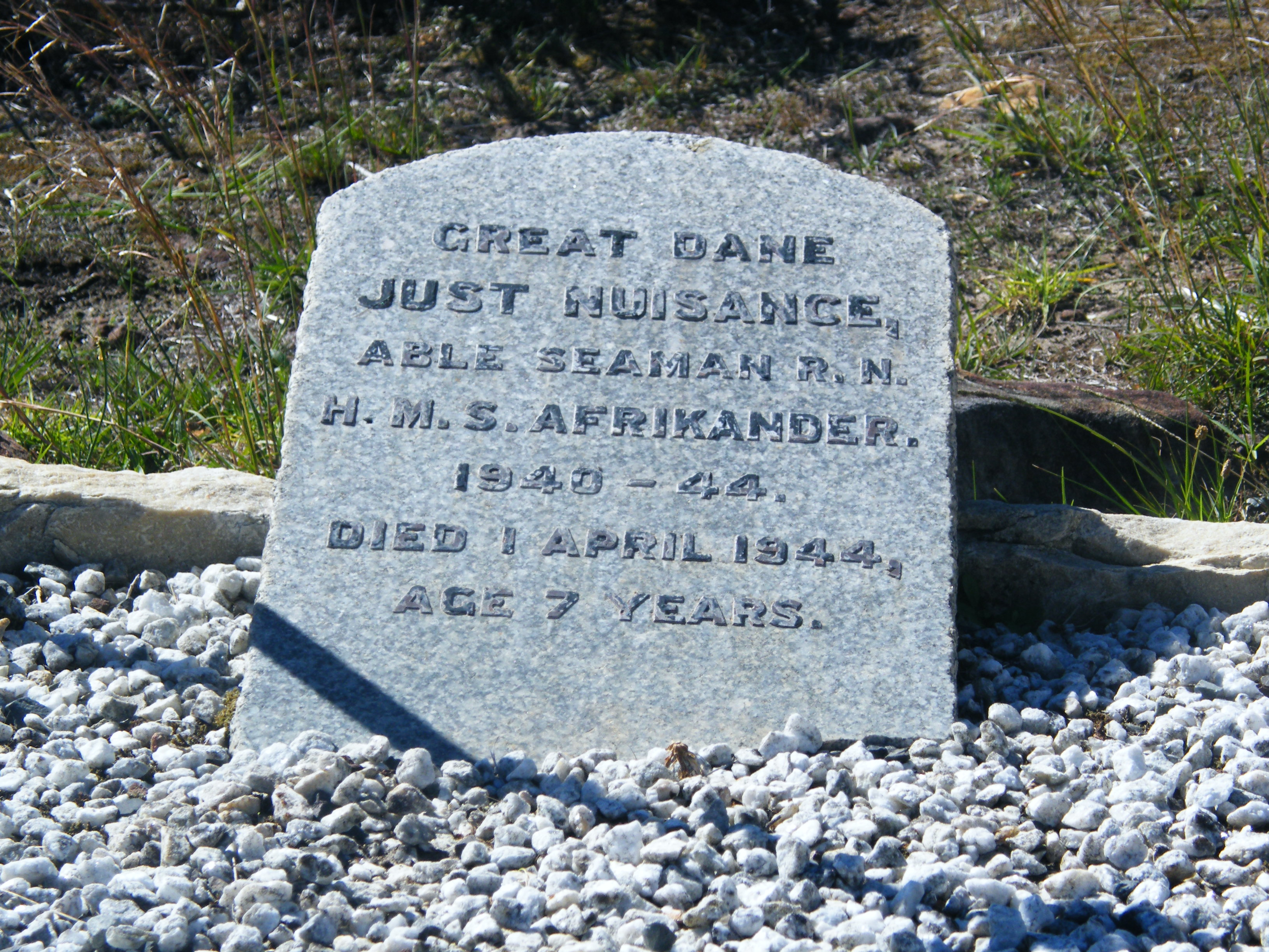 Just Nuisance's gravestone